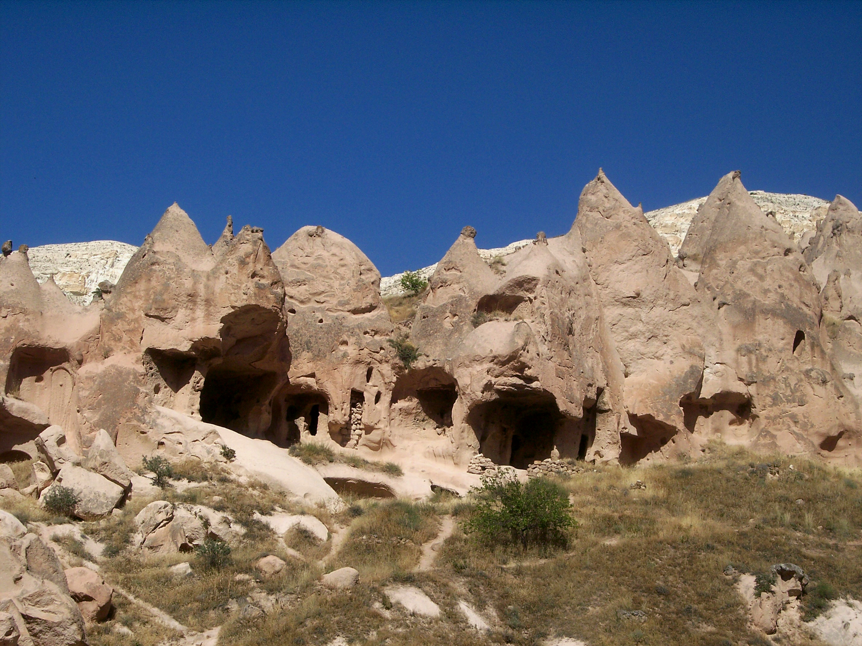 Rock formations in Zelve/Cappadocia, modern-day Turkey.